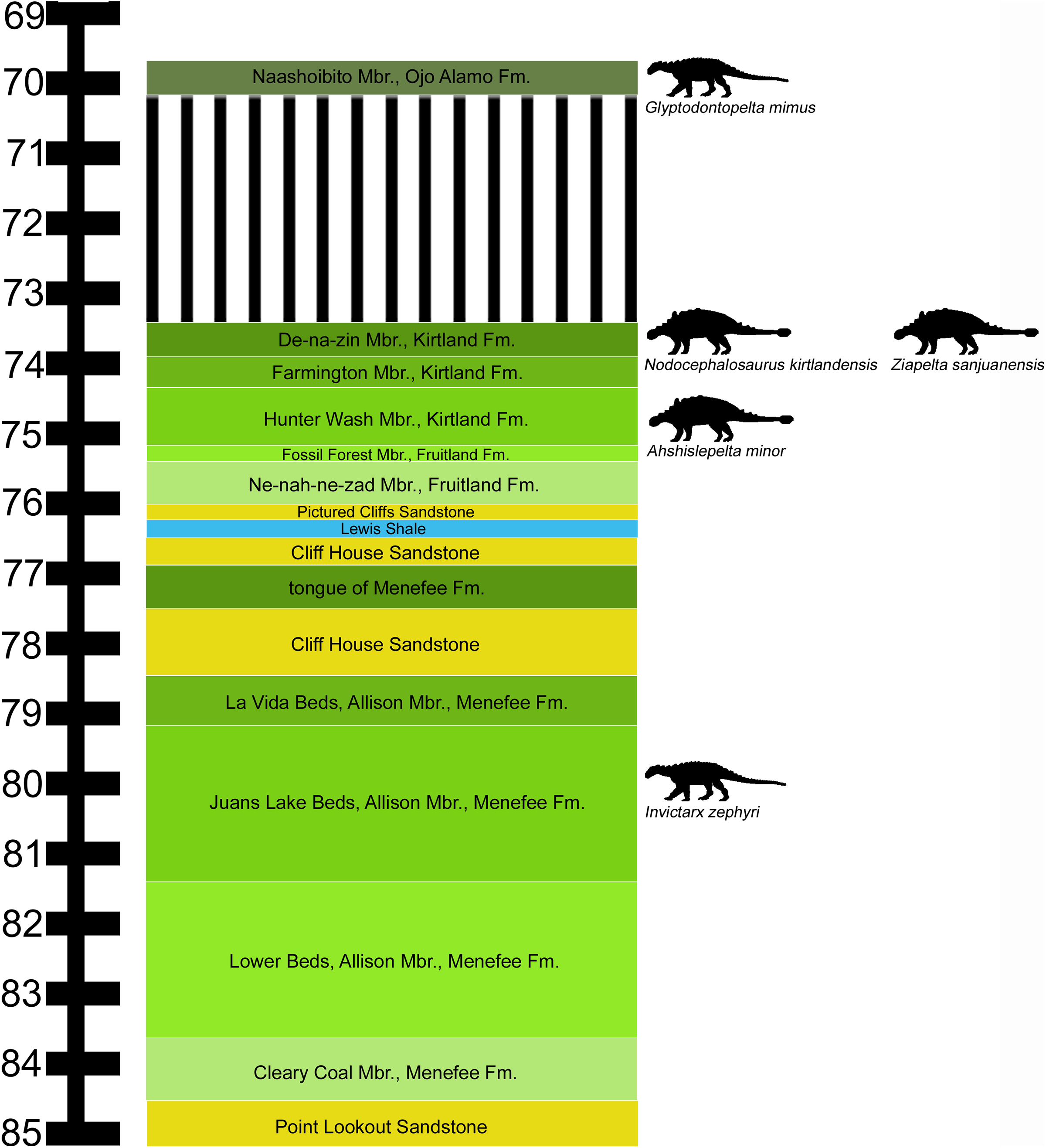 Original figure caption: Stratigraphic occurrences of Invictarx zephyri and other ankylosaurs from the San Juan Basin. Generalized stratigraphic column of Upper Cretaceous strata in the San Juan Basin, northwestern New Mexico, showing the stratigraphic positions of the nodosaurids I. zephyri and Glyptodontopelta mimus and the ankylosaurids Ahshislepelta minor, Nodocephalosaurus kirtlandensis, and Ziapelta sanjuanensis. Ankylosaur occurrence data are from Sullivan & Lucas (2015). Nodosaurid silhouette by Scott Hartman ( and ankylosaurid silhouette by Andrew A. Farke ( both available from PhyloPic. Stratigraphic column is derived from data in Miller, Carey & Thompson-Rizer (1991), Molenaar et al. (2002), Sullivan & Lucas (2006), and Fowler (2017). (for full references see original publication)